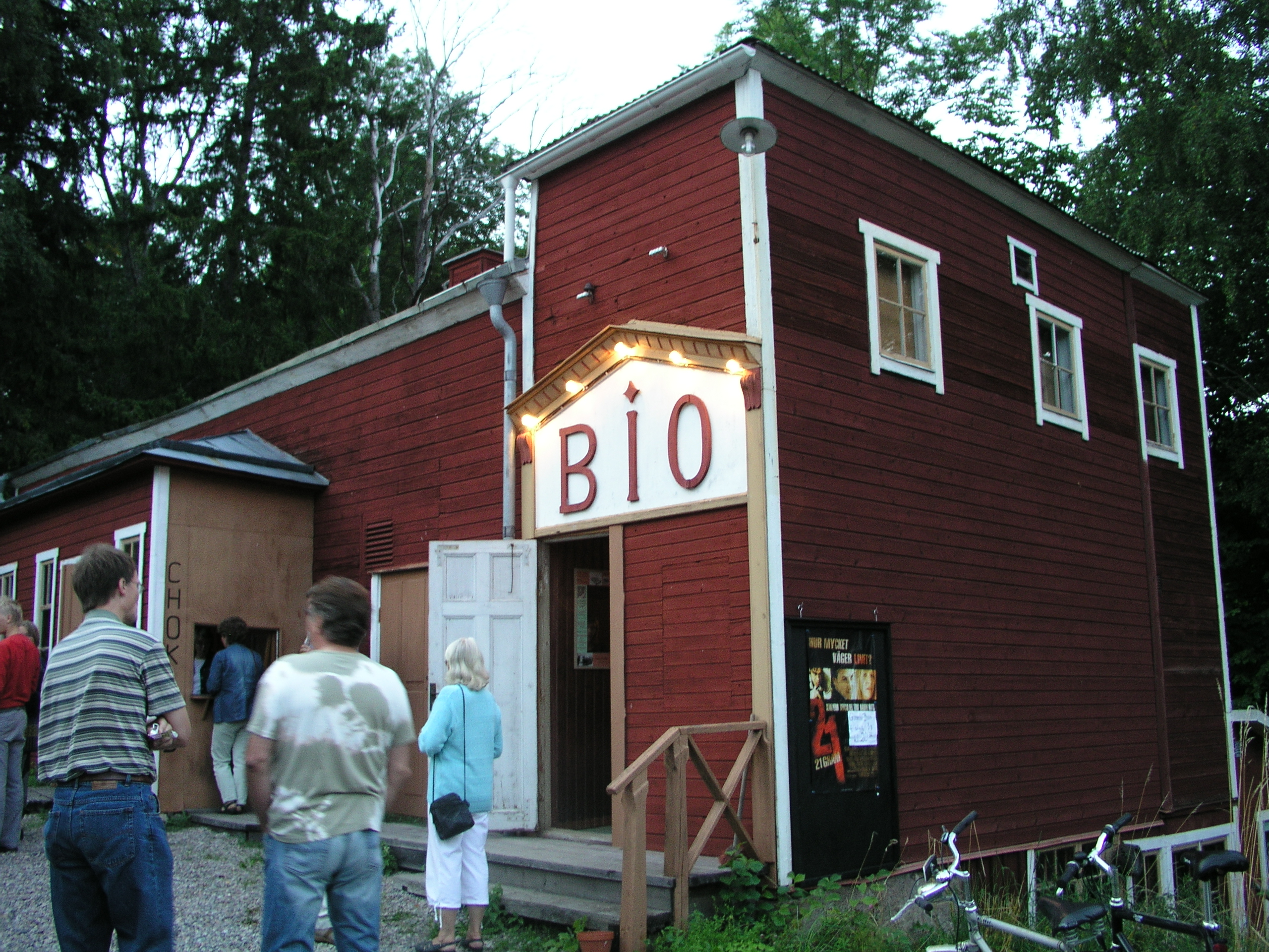 The old cinema in Örsundsbro, Uppland, Sweden